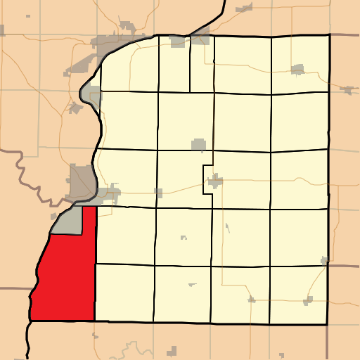 This is a map of Hancock County, Illinois, USA which highlights the location of Rocky-Run Wilcox Township.